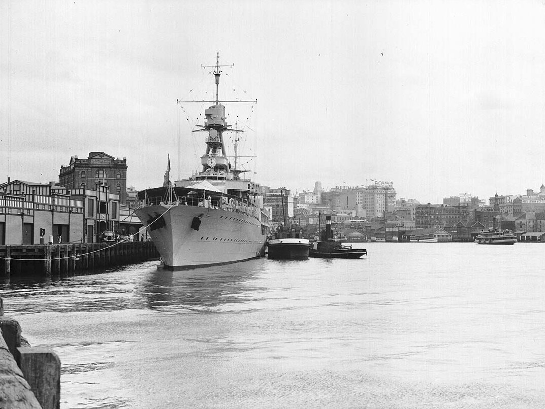 JEANNE D'ARC moored at Circular Quay, Sydney on its 1938 goodwill visit to Australia. This Hood photograph shows the cruiser bow on with a refuelling barge and tug alongside. It is moored at East Circular Quay. This photo is part of the Australian National Maritime Museum’s Samuel J. Hood Studio collection. Sam Hood (1872-1953) was a Sydney photographer with a passion for ships. His 60-year career spanned the romantic age of sail and two world wars. The photos in the collection were taken mainly in Sydney and Newcastle during the first half of the 20th century. If reproduced or distributed, this image should be clearly attributed to the collection of the Australian National Maritime Museum; and not be used for any commercial or for-profit purposes without the permission of the museum. For more information see our Flickr Commons Rights Statement. The ANMM undertakes research and accepts public comments that enhance the information we hold about images in our collection. This record has been updated accordingly. Photographer: Samuel J. Hood Studio Collection Object no. 00020437